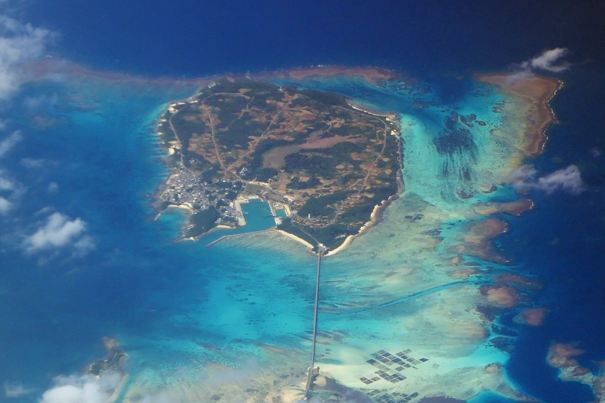 Ikemajima Island in Miyakojima, Okinawa Prefecture, Japan.